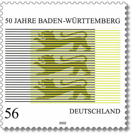 Stamp from Deutsche Post AG from 2002, 50th anniversary of Baden-Württemberg